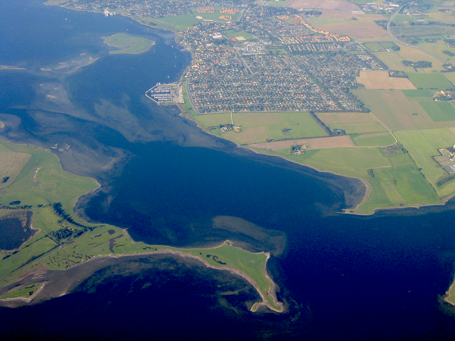 A detail of the Eskilsø Islet (left) and the town of Jyllinge in the Roskilde Fjord, Denmark.